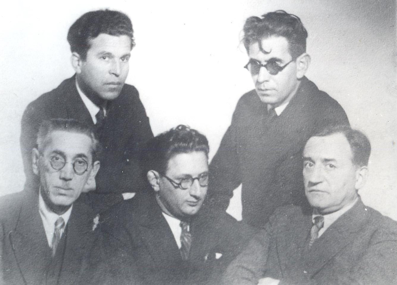 Hiperion, Bulgaria - Ivan Radoslavov, Vicho Ivanov, Mois Benaroya, Miroslav Minev and Teodor Trayanov